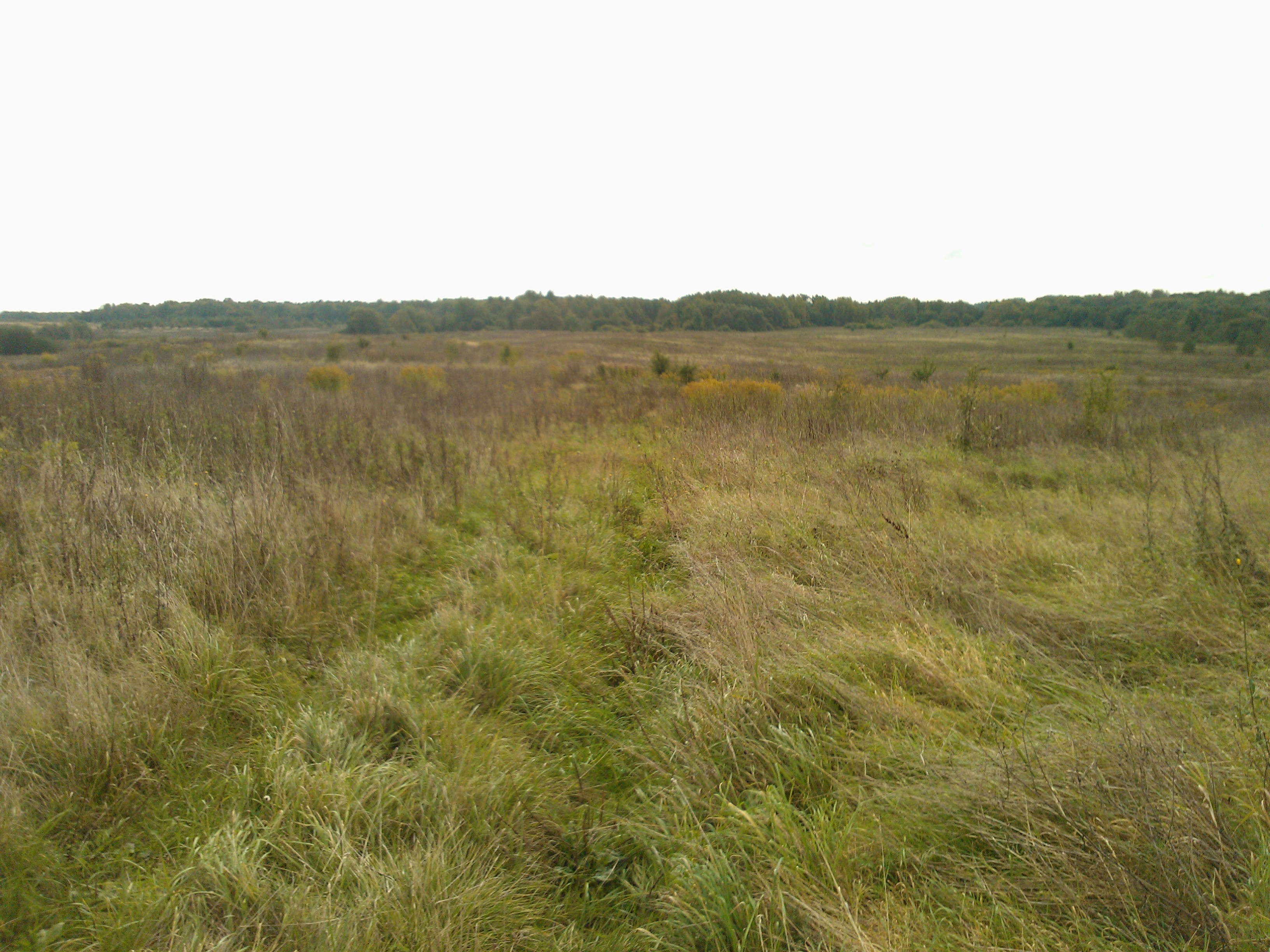 Preussisch-Eylau battlefield. At the year 2013 view from the Russian left wing. From the woods of the center ithe troops of Davout attached.